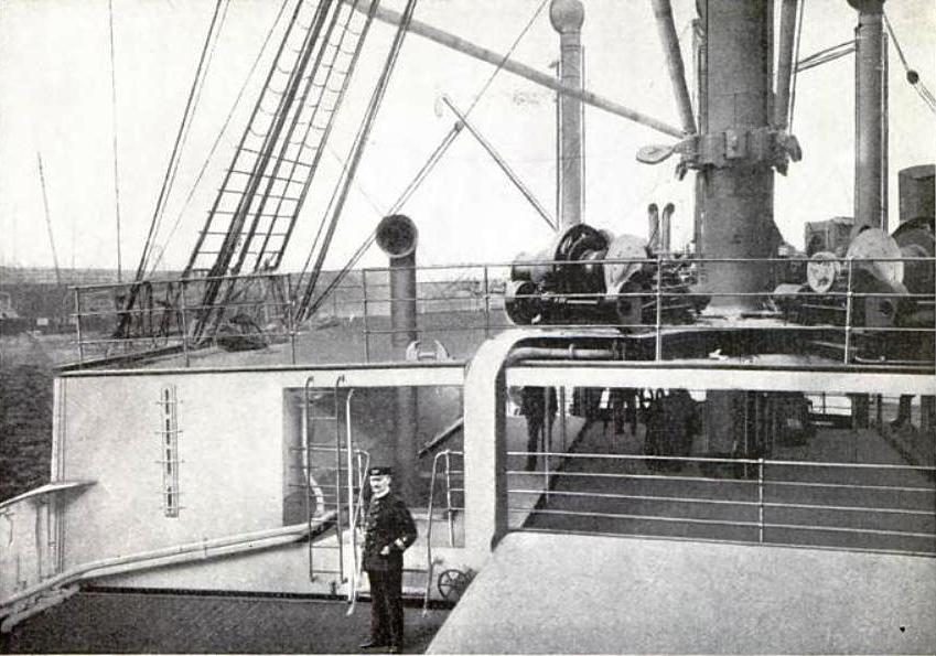 Photograph of the deck of the SS Ypiranga circa 1911.